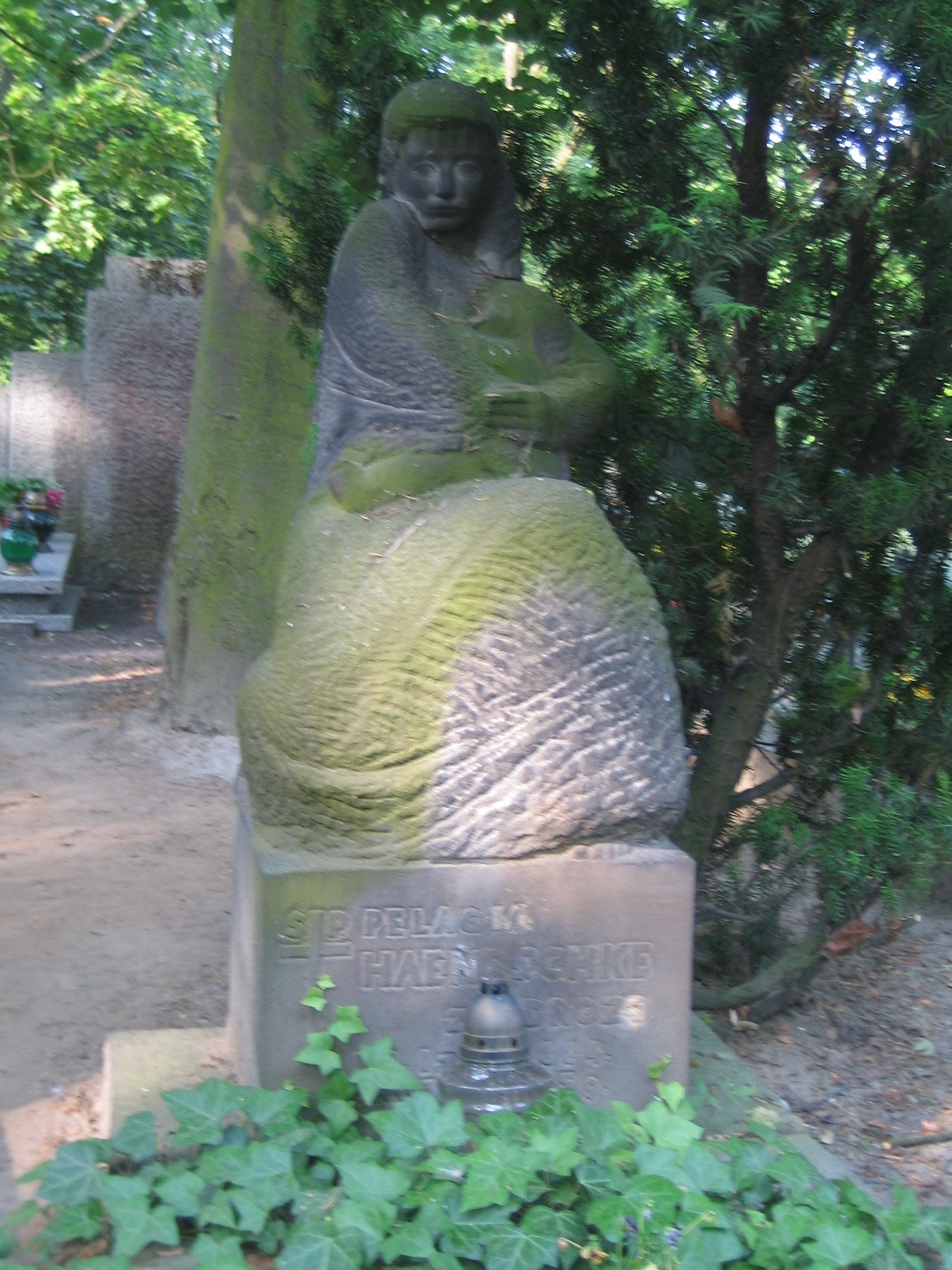 The tombstone of Pelagia Haendschke at the Jeżyce Cemetery in Poznań.